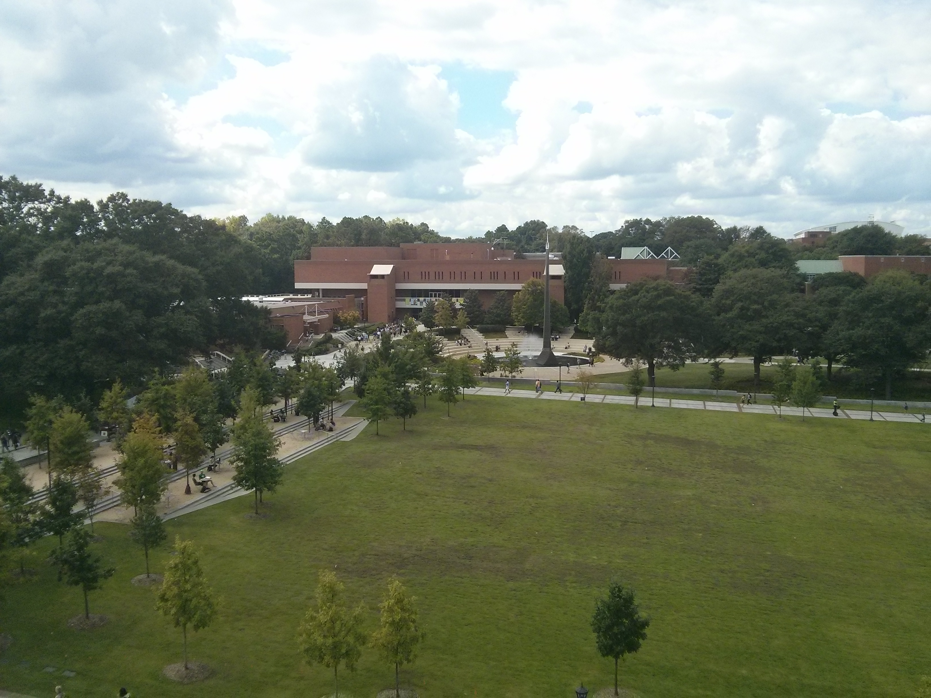 View of Tech Green, including the Shaft and the Student Center. Taken from CULC. 2014.